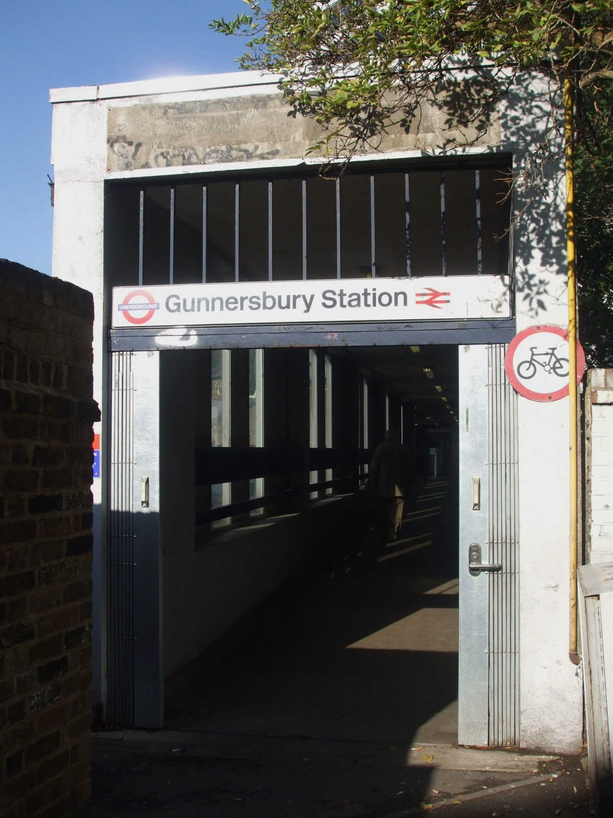 Gunnersbury station eastern entrance on footbridge